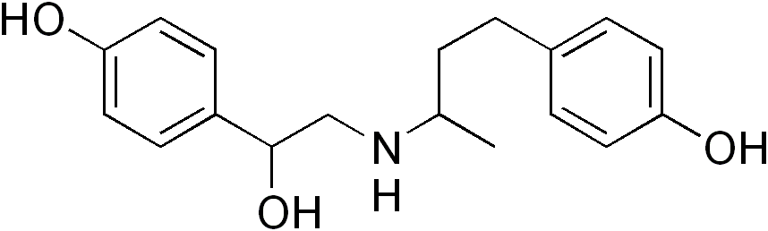 chemical structure of Ractopamine